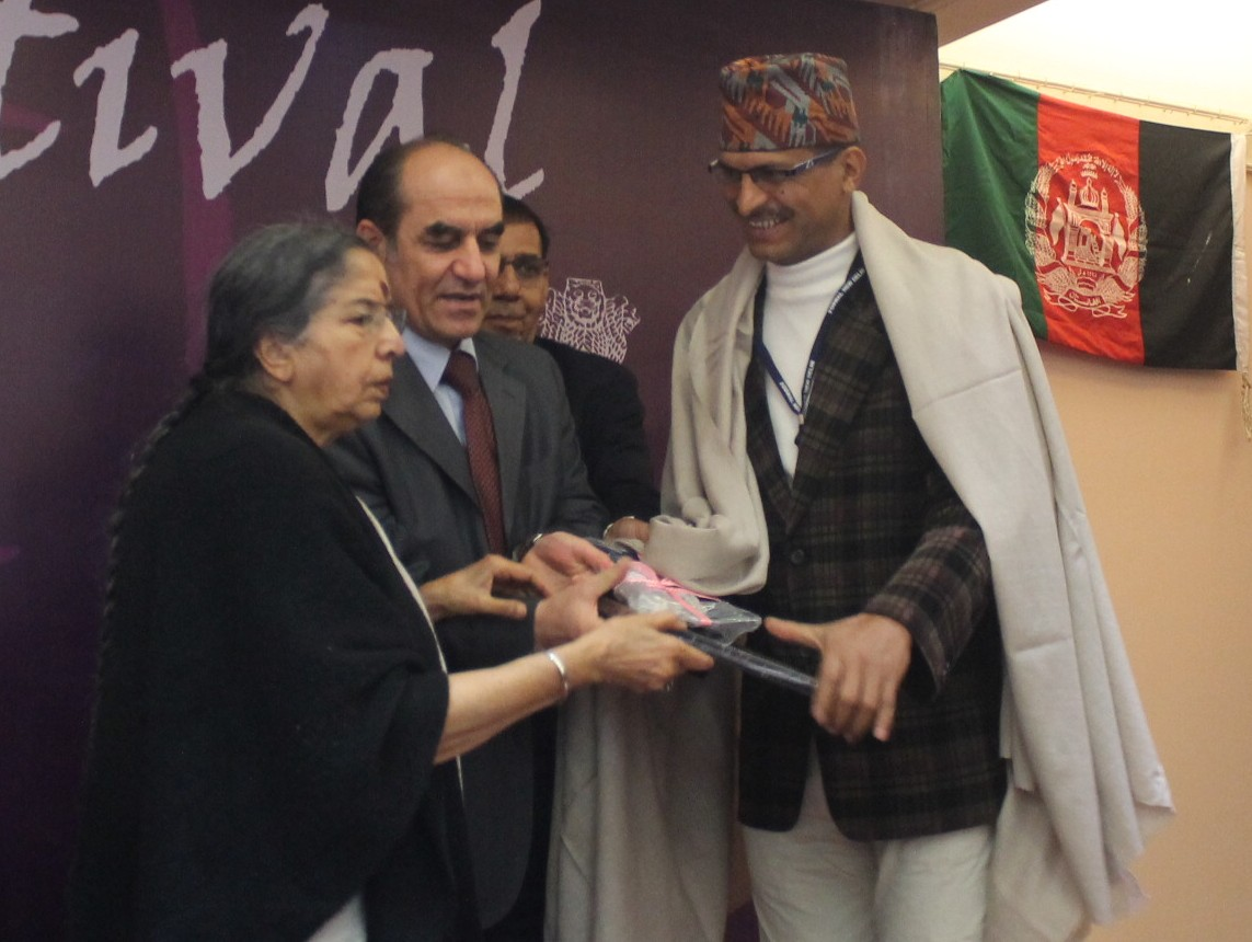 Nepali poet/writer Suman Pokhrel receiving SAARC Literary Award 2015